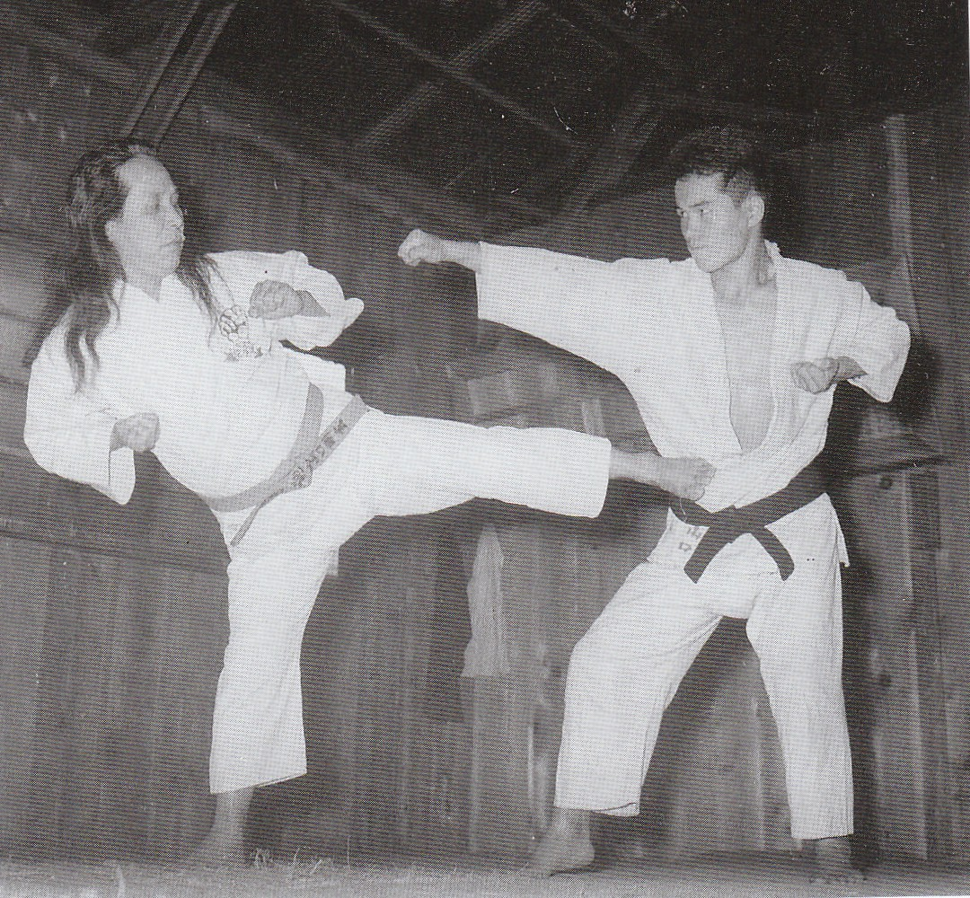 Japanese Karateka, Gogen Yamaguchi(l) and his son Goshi Yamaguchi(r).